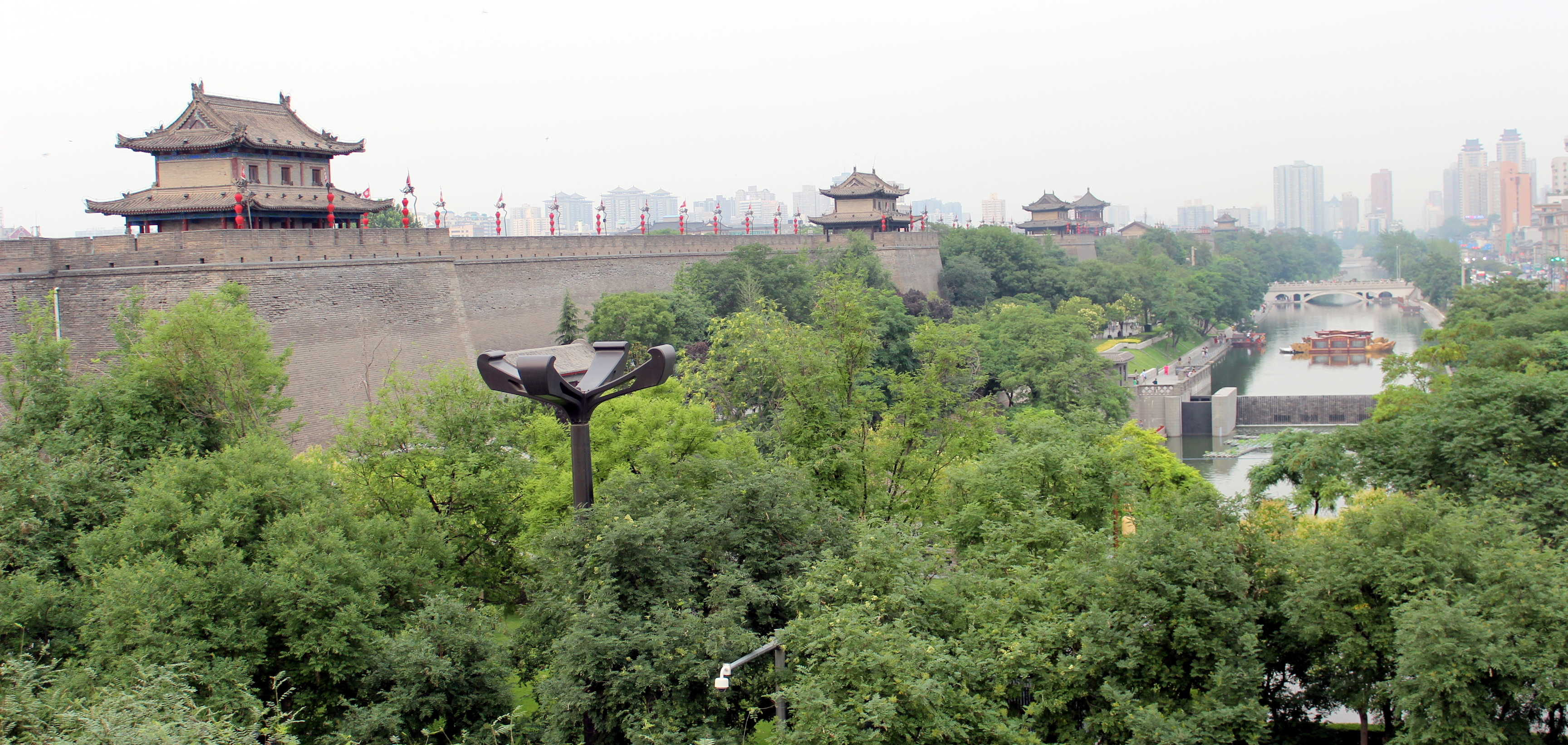 Towers of ancient city wall, Xi'an, China